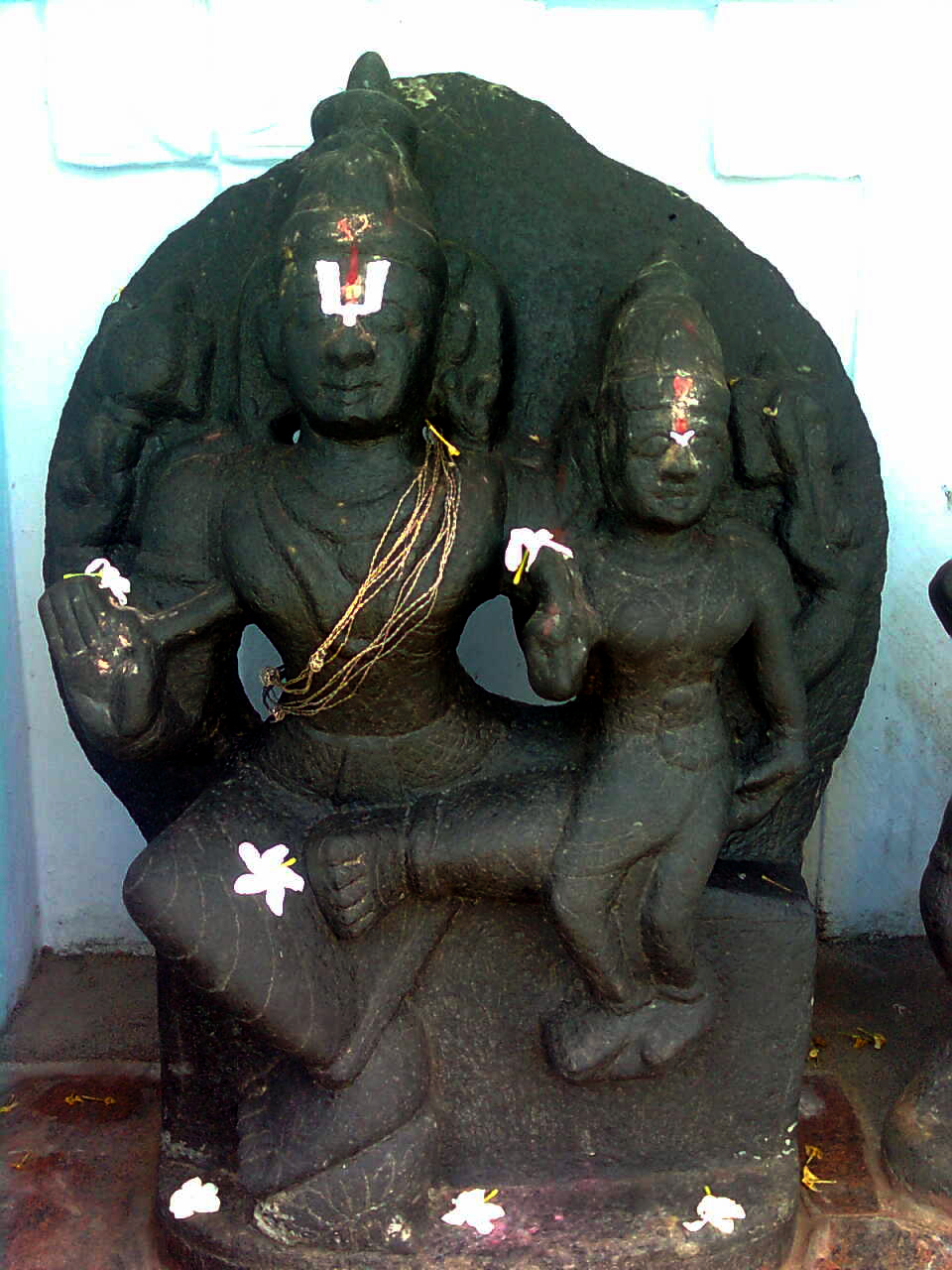 Lord Rama and his consort Seeta statue at temple in Pogallapalli Village of Mulakalapalli Taluk in Khammam district, Andhra Pradesh